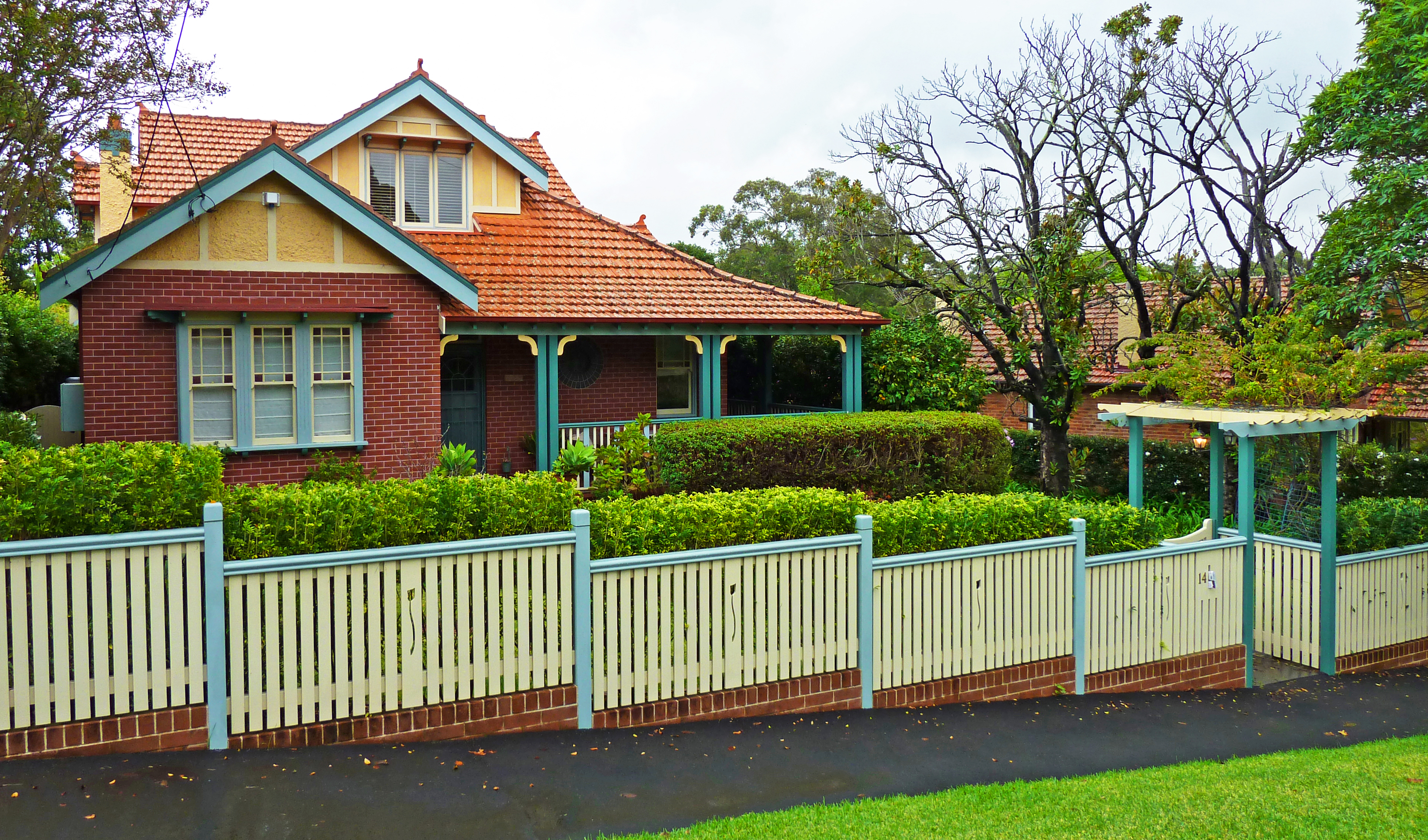 14 Kelburn Road, Roseville, New South Wales, Australia. Built c. 1915.